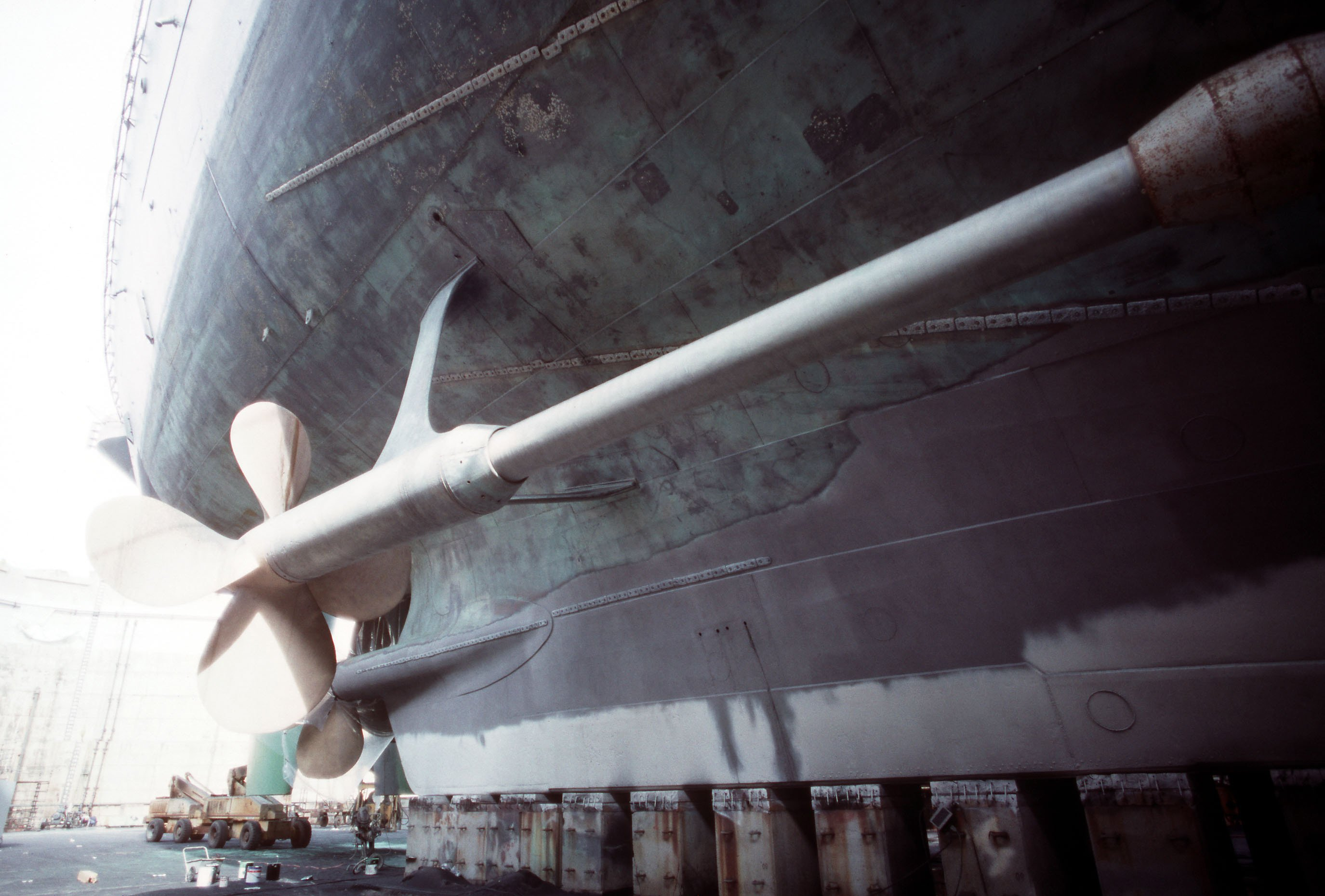 Released to Public ID: DNST9201587 Service Depicted: Navy A view of the outboard starboard propeller shaft and propeller of the battleship USS MISSOURI (BB-63). The MISSOURI Is in dry dock during a yard period. Location: LONG BEACH NAVAL SHIPYARD, CALIFORNIA (CA) UNITED STATES OF AMERICA (USA)